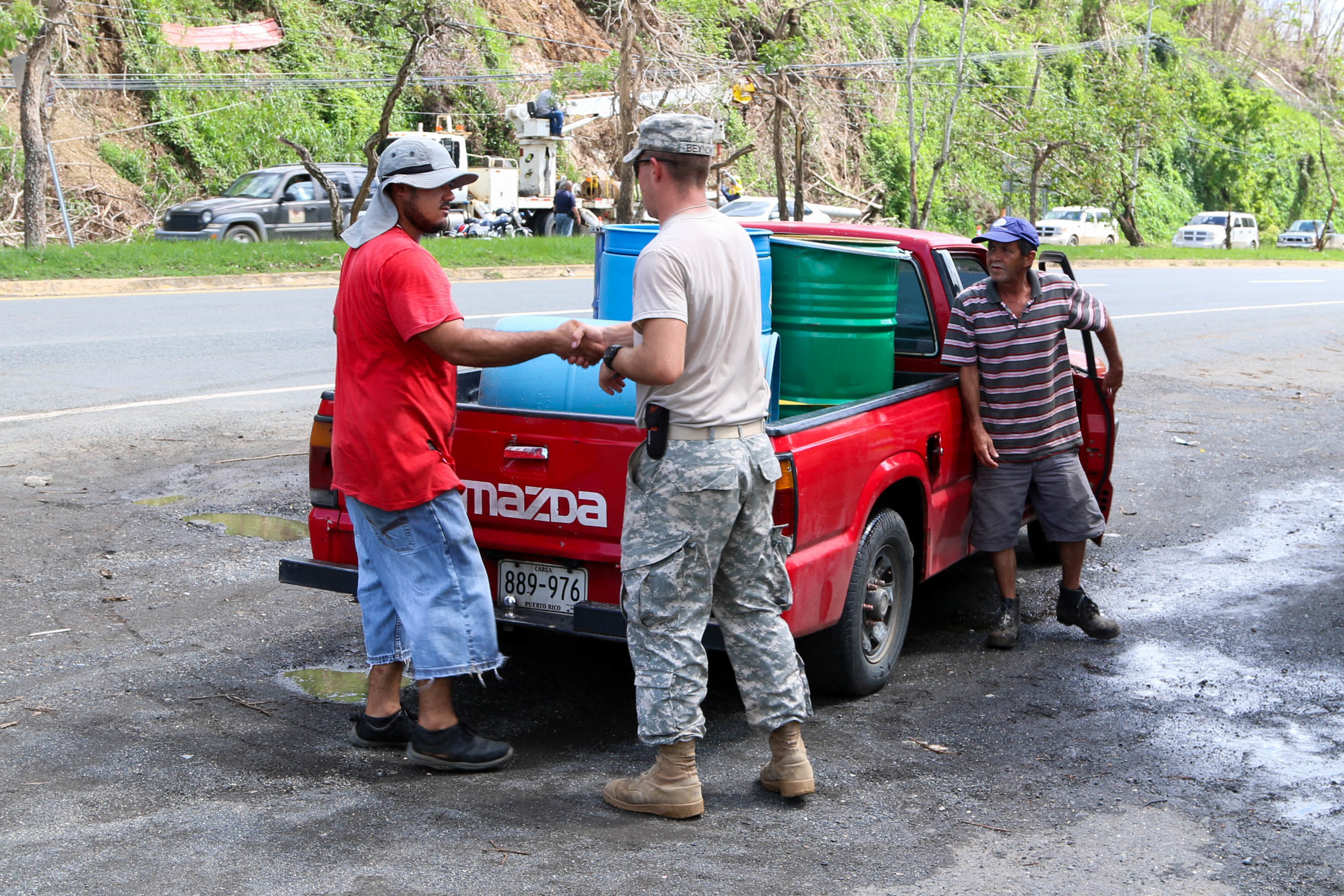 Puerto Rico National Guard Citizen-Soldiers along with the South Dakota National Guard distribute potable water to residents of Naranjito, Oct. 11. The National Guard team work with two water tanks “Hippos” with a capacity of 2,000 gallons of potable water. (Photo by Sgt. Alexis Vélez)